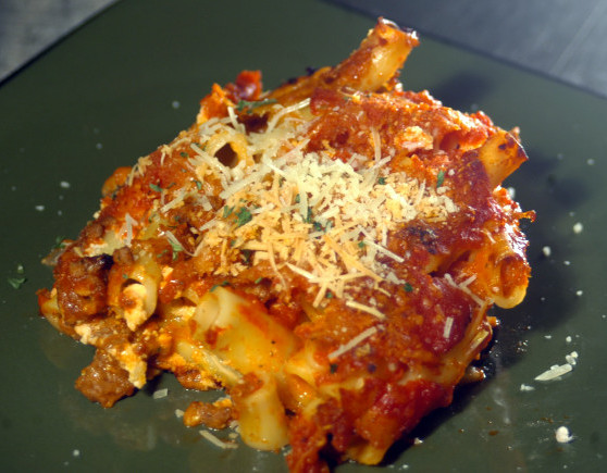 Baked ziti, a dish with beef, 3 cheeses, and Ziti Pasta